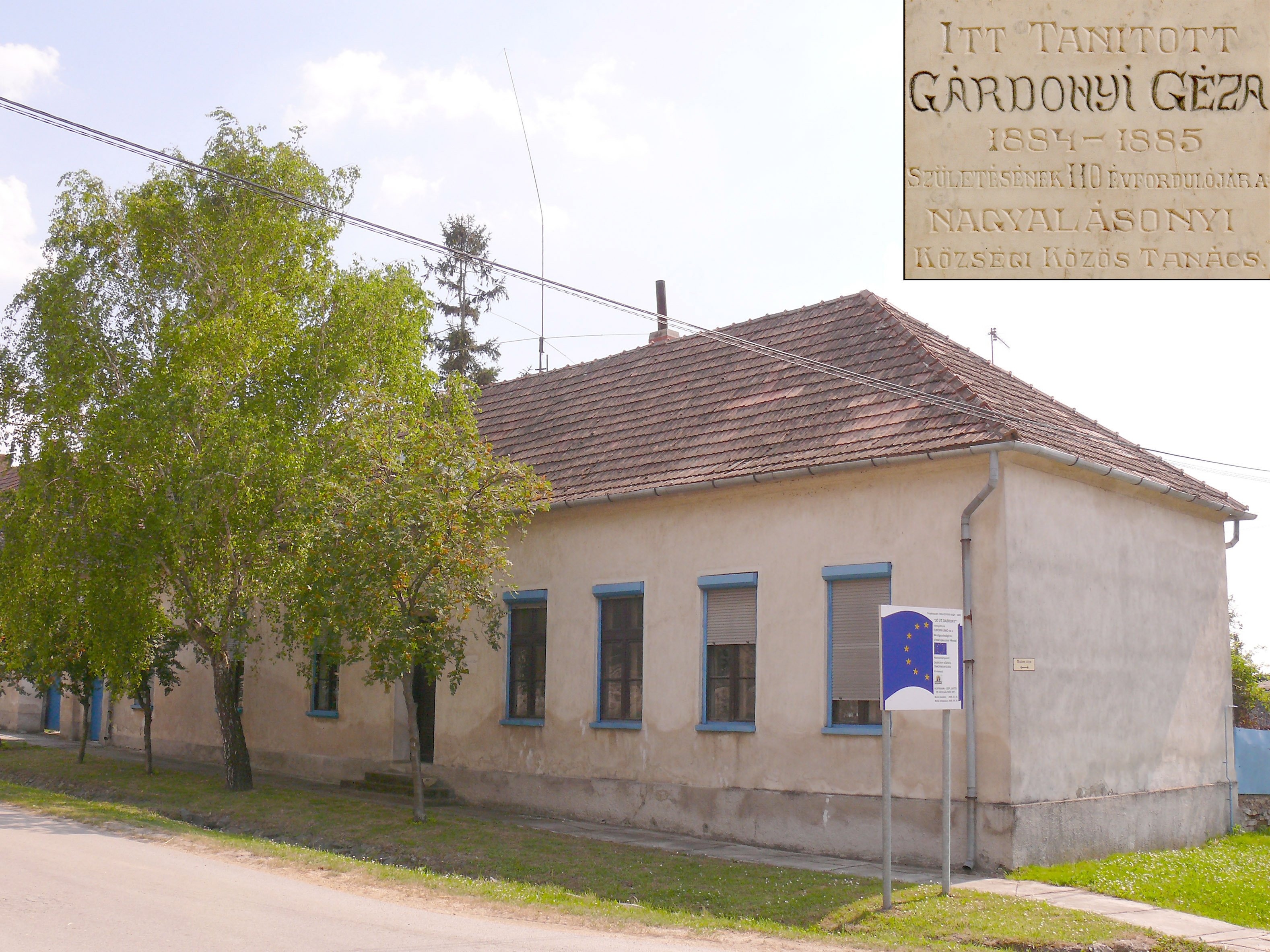 The building of the former Roman Catholic School in Dabrony, with a Géza Gárdonyi memorial tablet on its wall